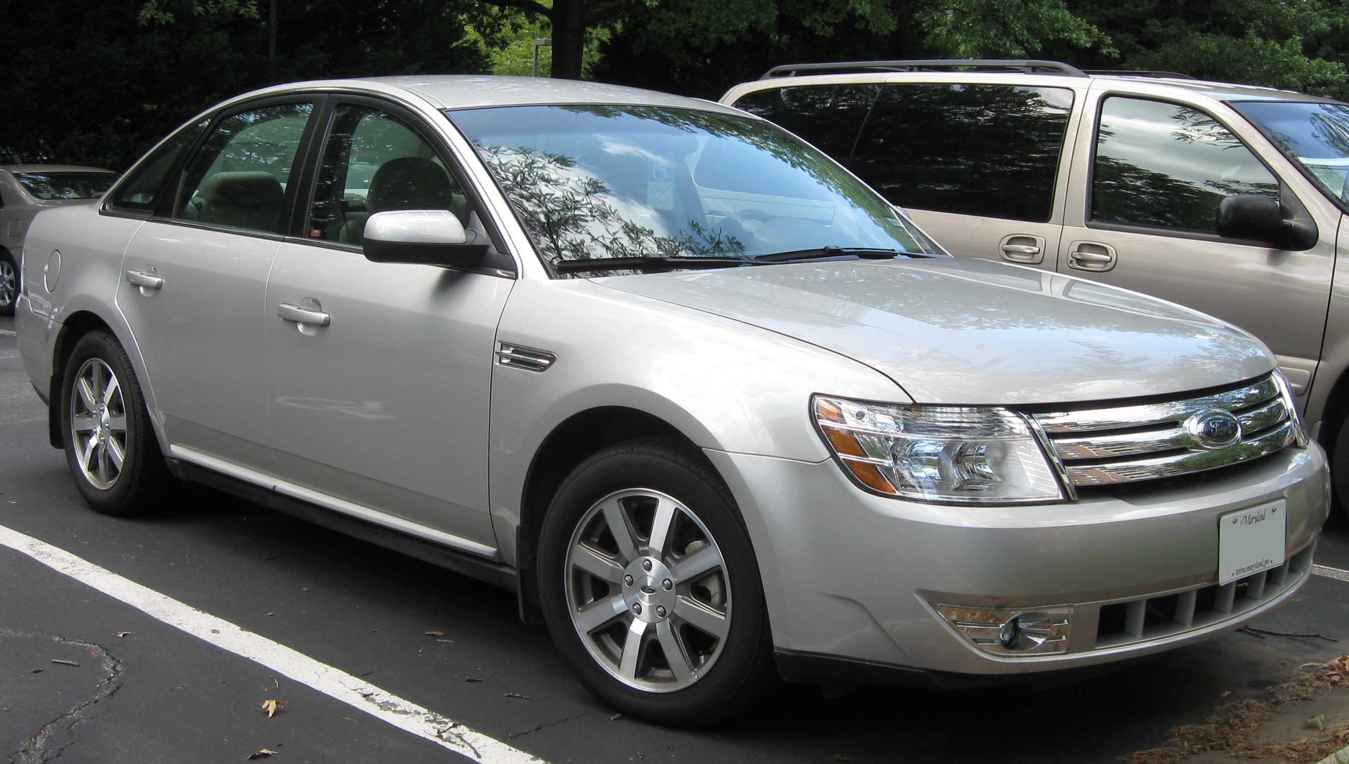 2008 Ford Taurus photographed in Gaithersburg, Maryland, USA.